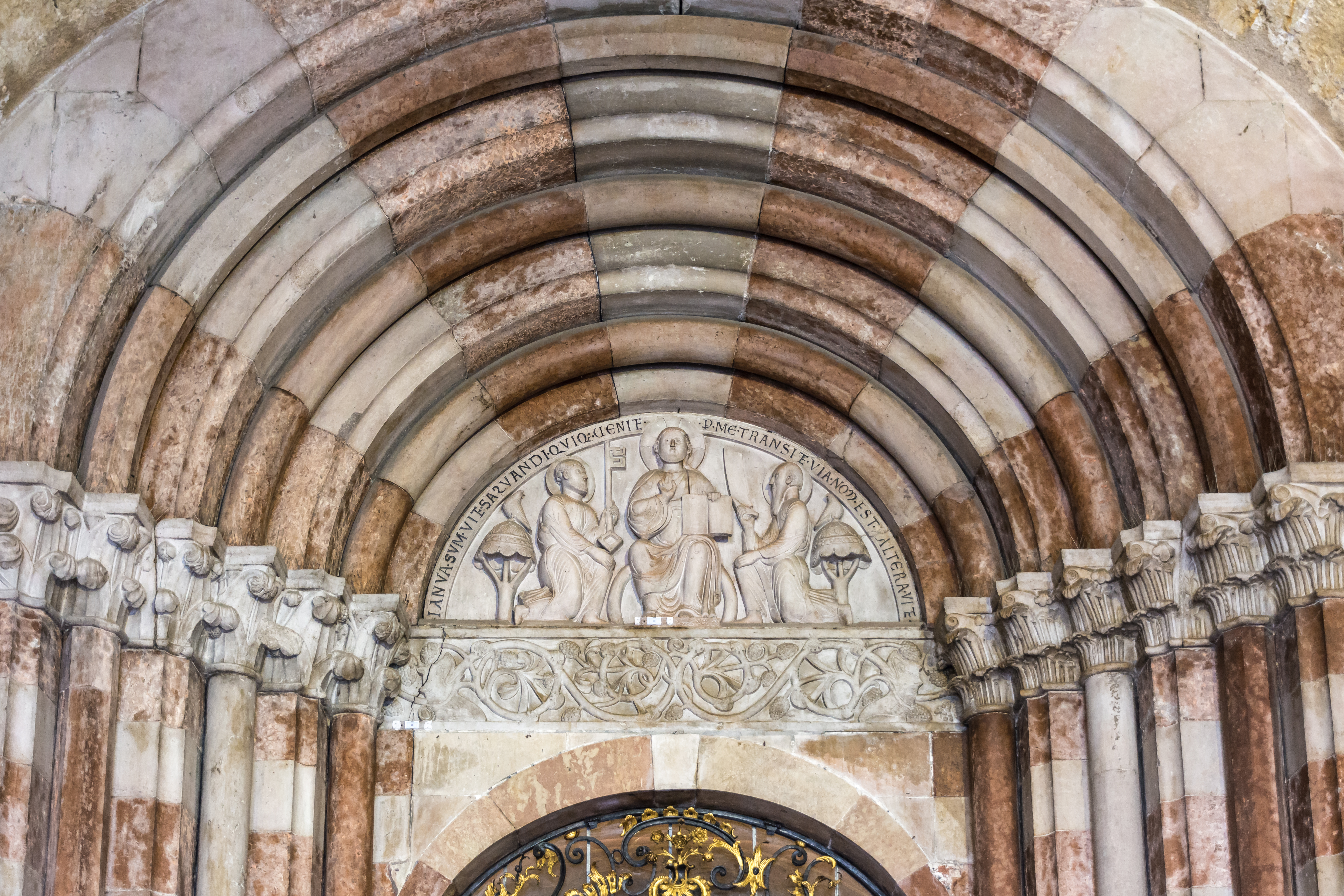 Romanesque main portal of St. Peter's Abbey Church in Salzburg, federal state of Salzburg, Austria